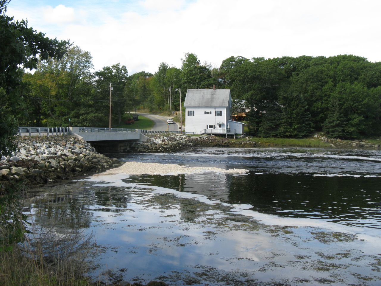 This river- really a tidal estuary- has amazing tides that result in a 'reversing falls' effect..